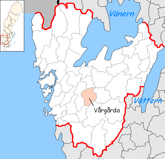 Vårgårda Municipality in Västra Götaland County Designed by me. Mere outlines are a PD source from